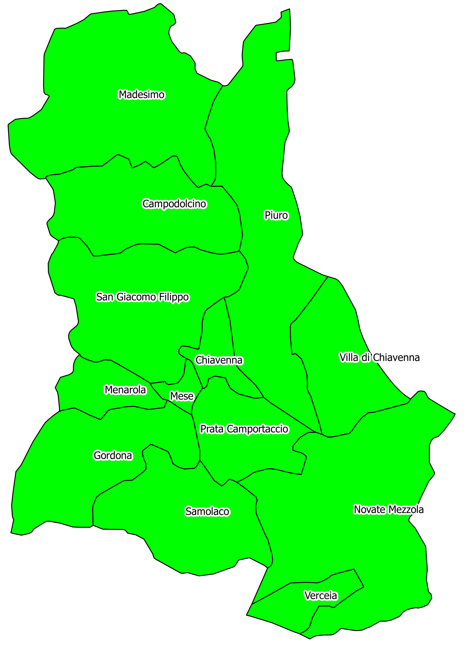 made with qgis